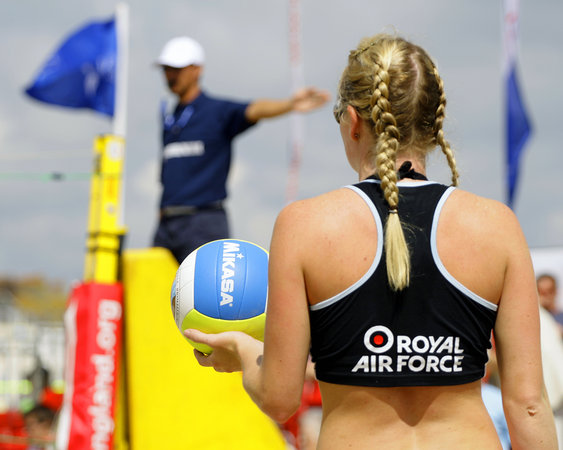 Beach Volleyball Classic 2007 Weymouth Dorset ENGLAND